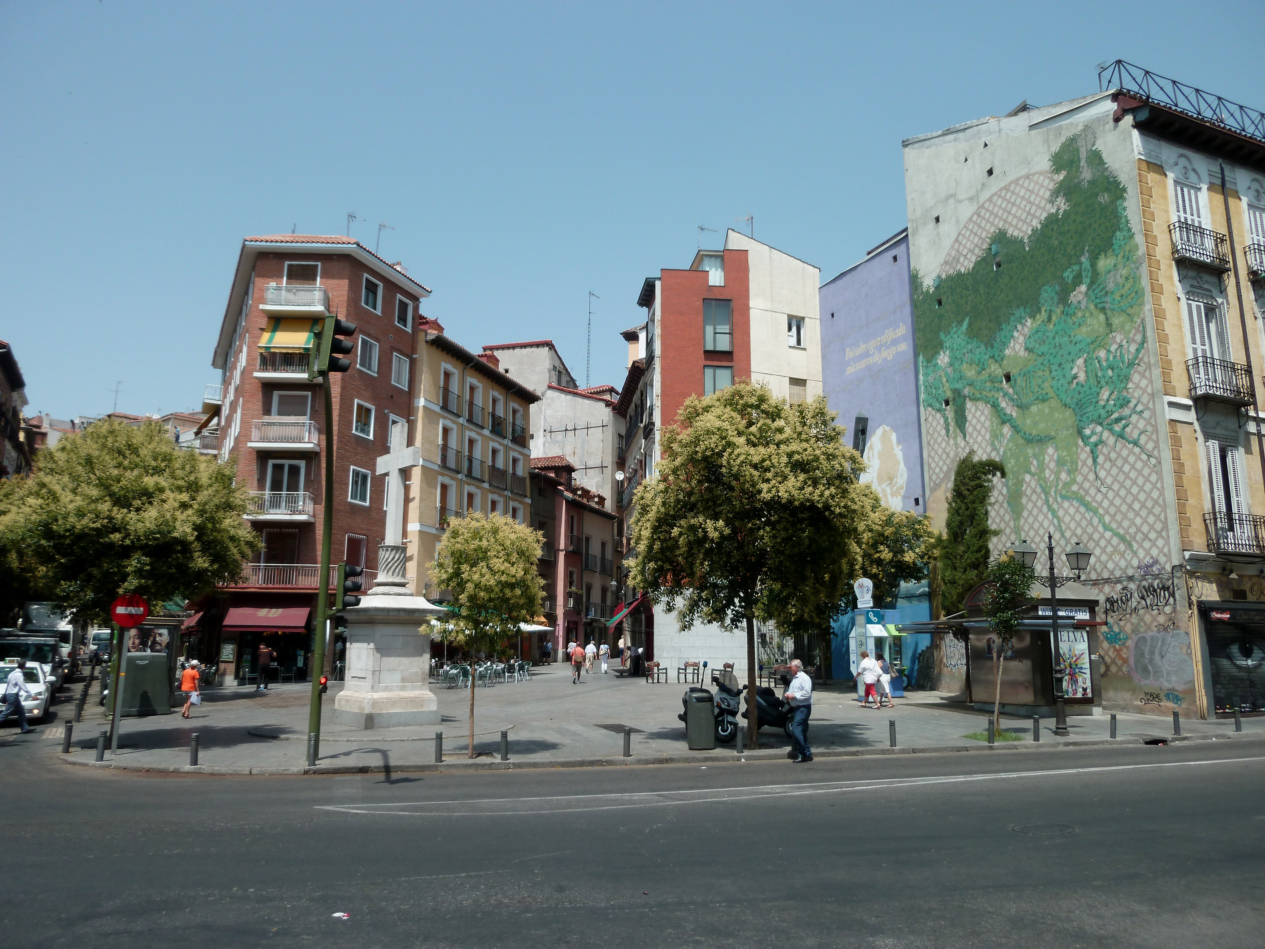 View of Plaza de Puerta Cerrada (square) in Madrid (Spain).